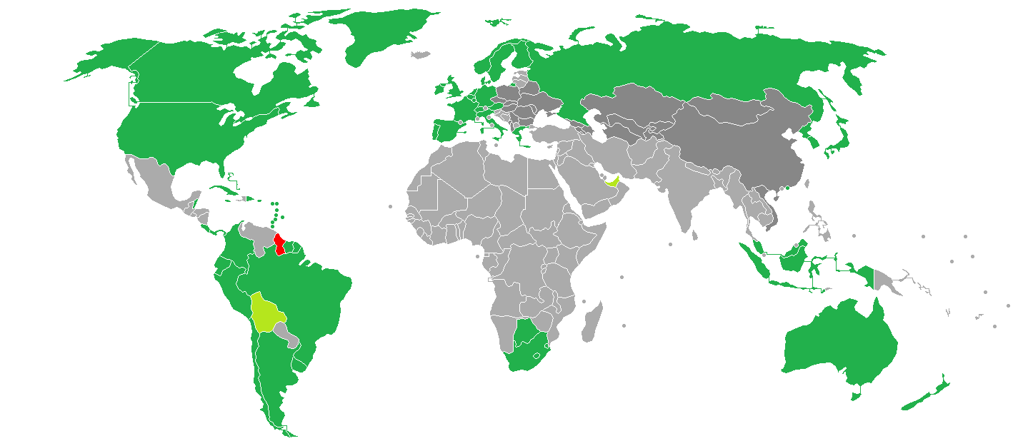 Visa policy of Guyana Guyana Visa-free access Visa on arrival No visa-free transit